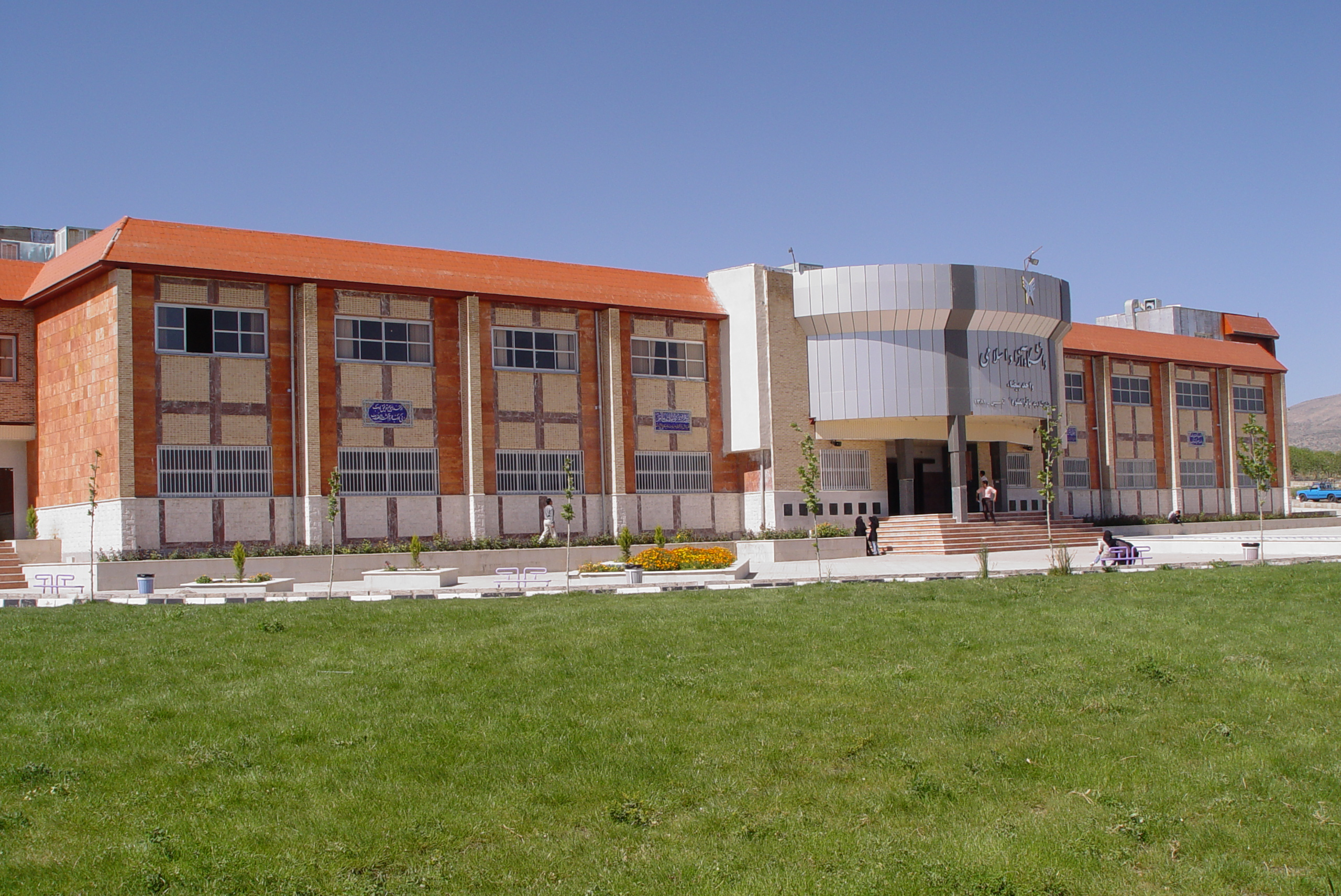 دانشگاه ازاد بیضا